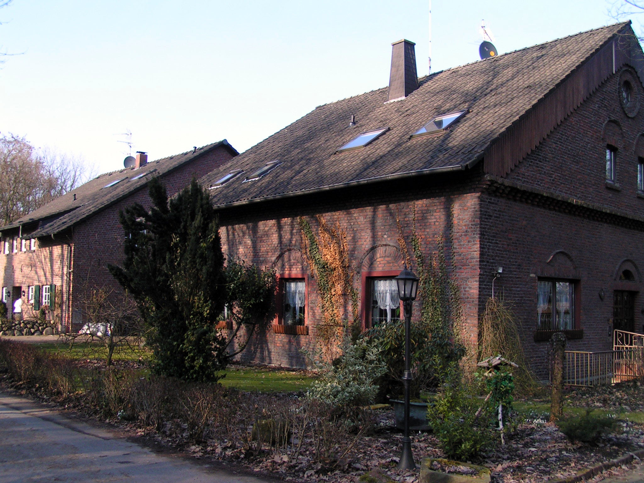 Schacht Hector an dem Bergbauwanderweg Wattenscheid bei Eppendorf Historic walking route of early mining in Bochum Wattenscheid, nearby Eppendorf Date: March 2006, Bochum, Germany Author: Maschinenjunge Licence: cc-by-sa-2.5